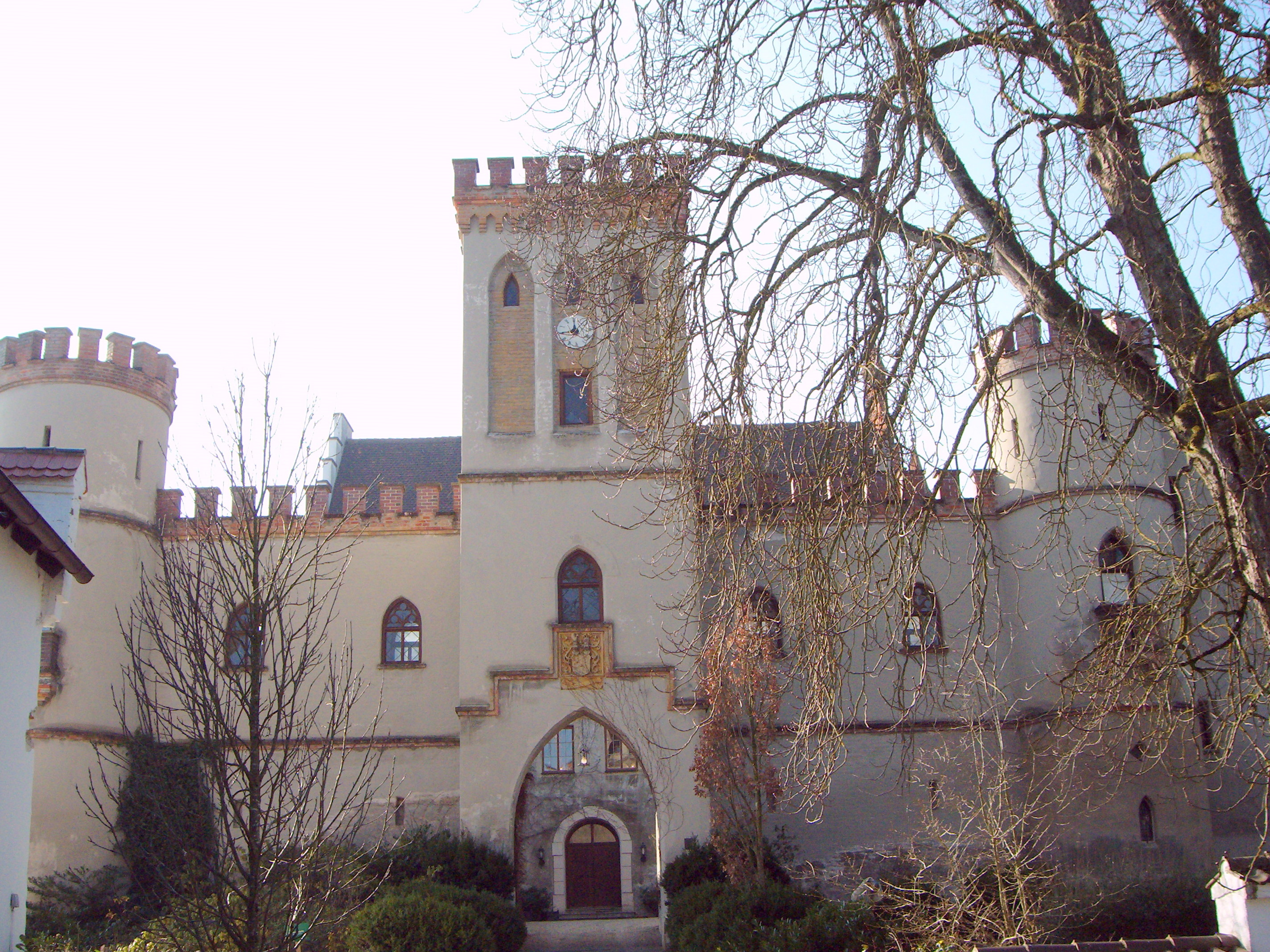 Igling, Castle Igling